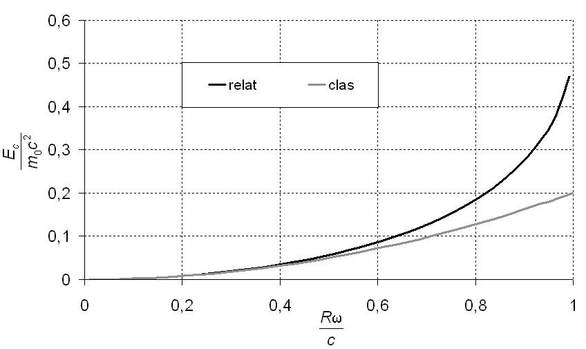 Kinetic energy of a sphere: classic quadratic expresion and relativistic expresion ara compared. R is the radius of the esphere and ω angular velocity. For relativistic calculation is supposed that deformation is negligible and there is no change in density material.